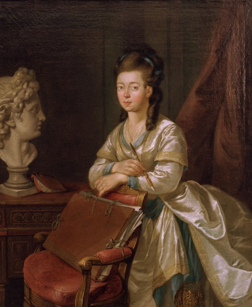 Landgravine Louise of Hesse-Darmstadt (1757–1830), Grand duchess of Saxe-Weimar-Eisenach